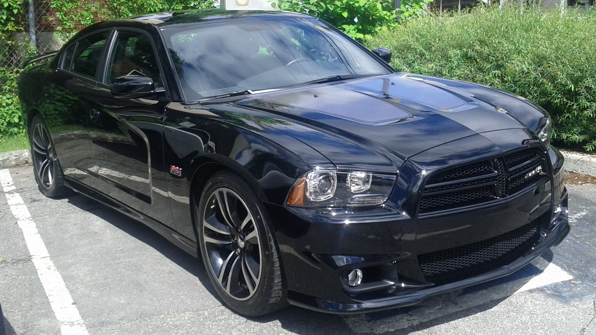 2012-2014 Dodge Charger Super Bee photographed in Ste. Anne De Bellevue, Quebec, Canada at Cruisin' At The Boardwalk.